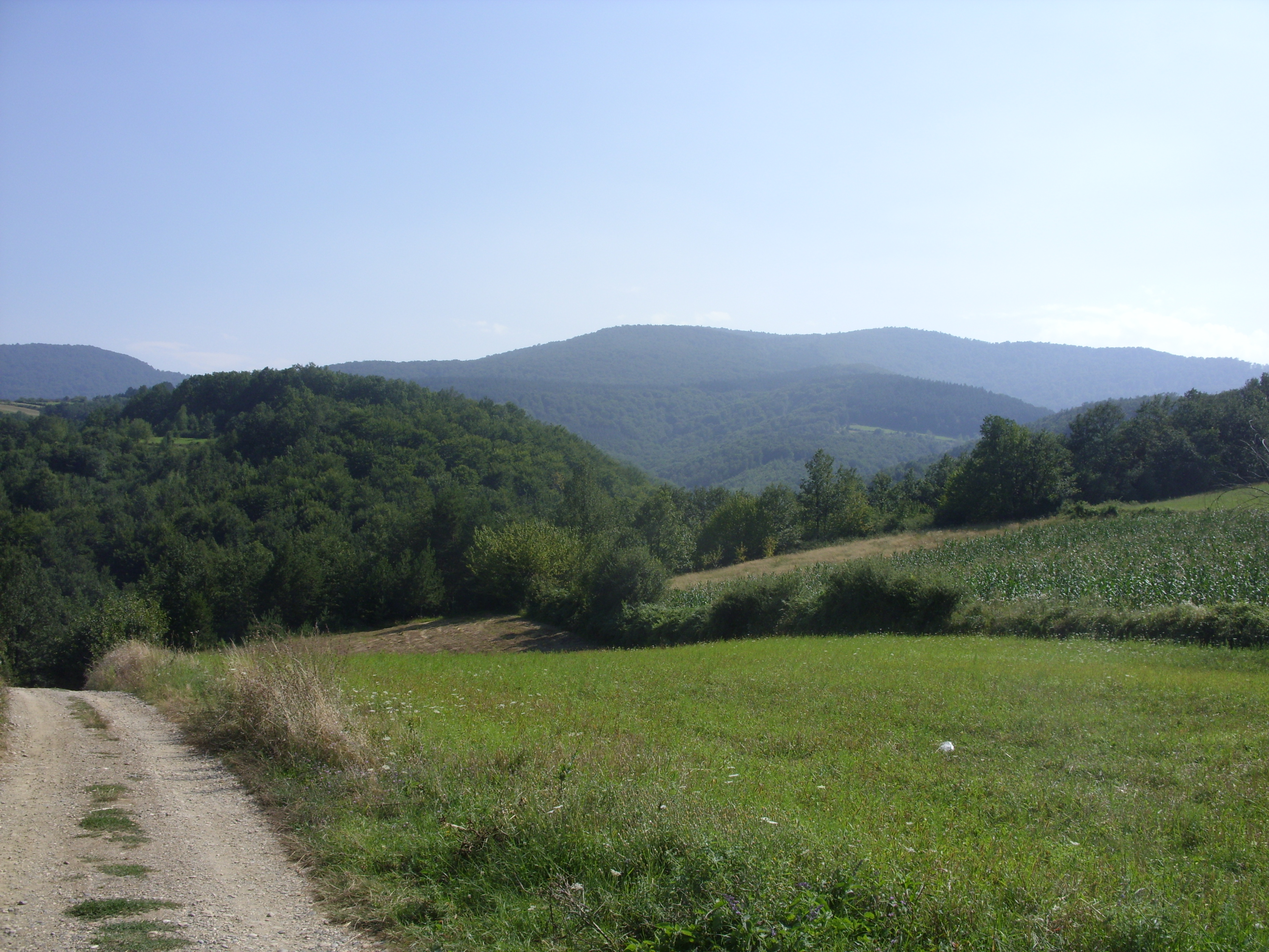 mountain Veliki Jastrebac, Serbia